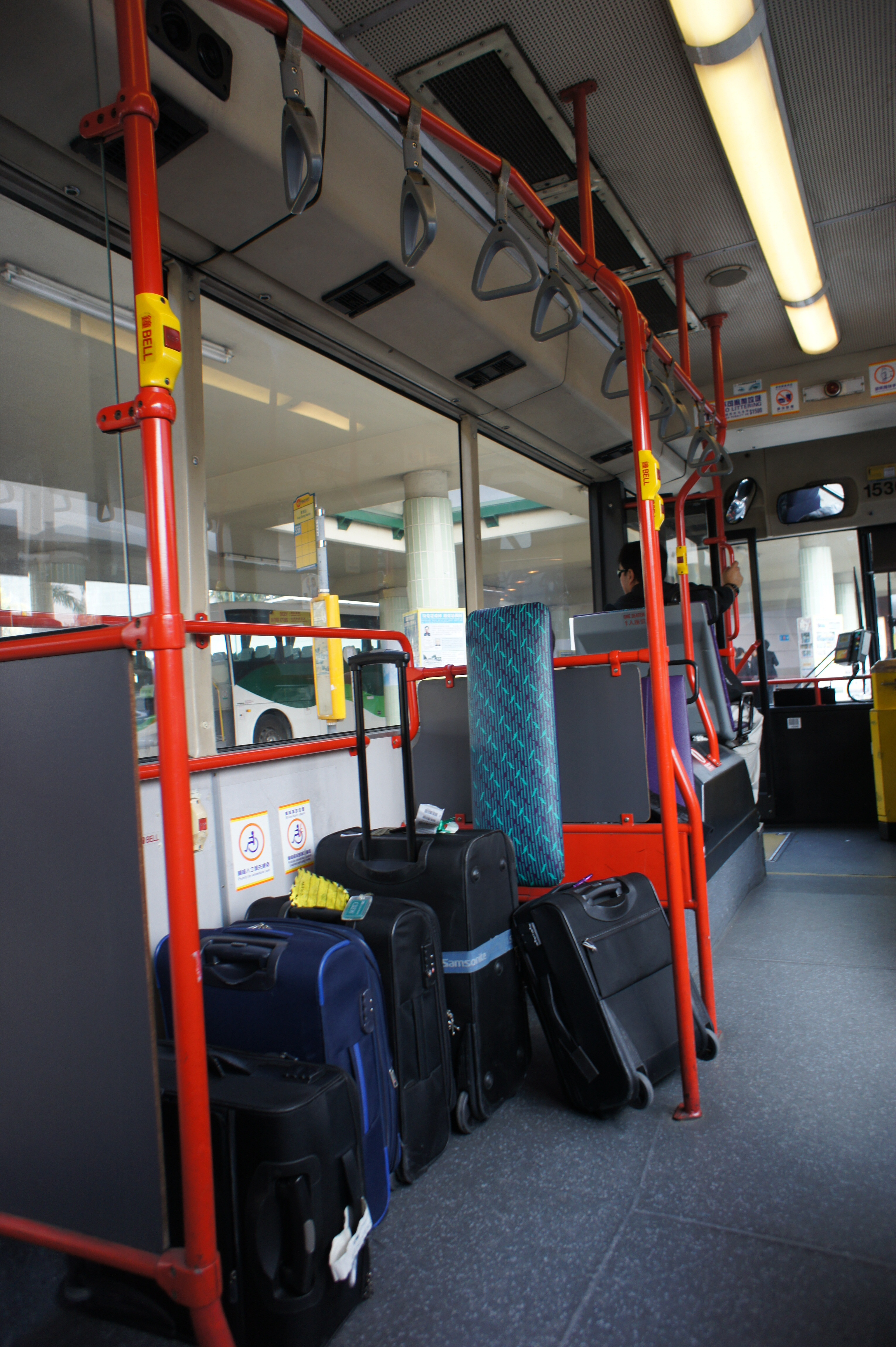 Luggage rack on a Citybus route S56 bus, Hong Kong.